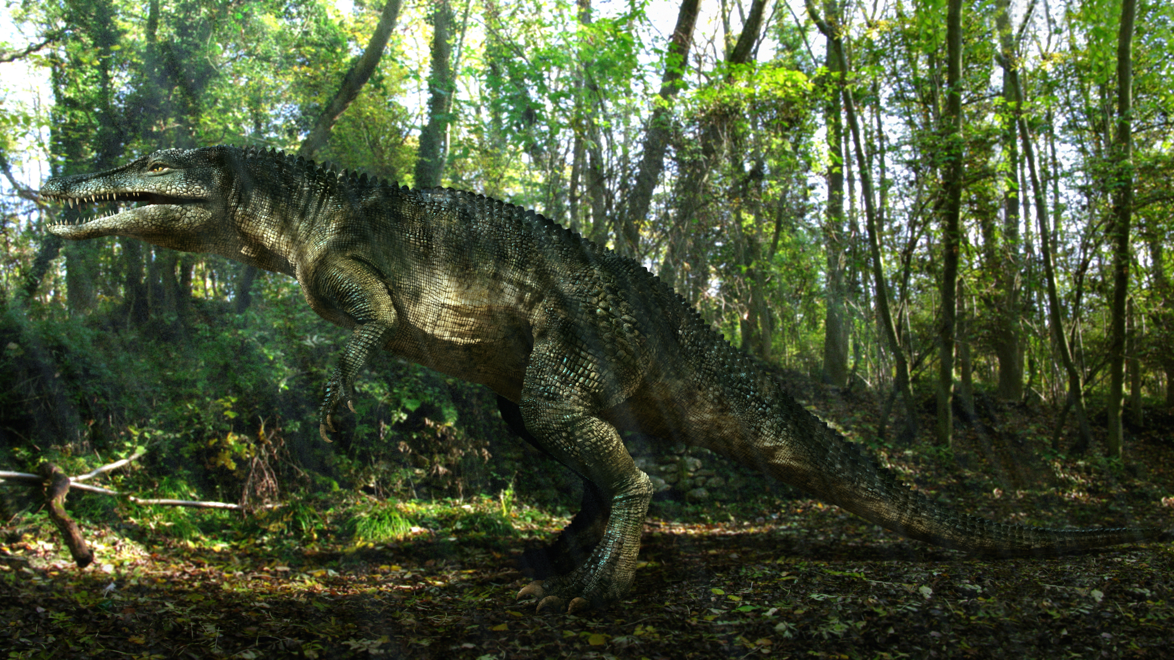 Life restoration of Carnufex carolinensis